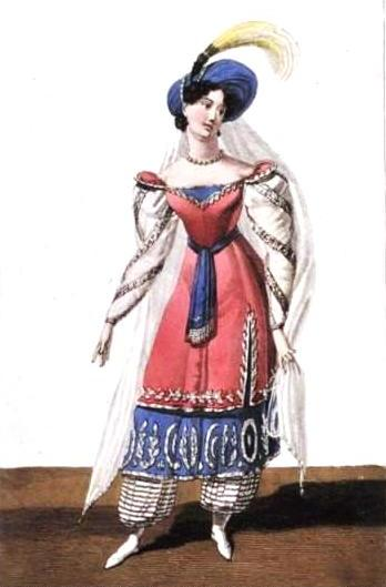 French soprano Mademoiselle Lemoule as Léila in Rossini's opera Ivanhoé, published by Hautecoeur Martinet (Paris)